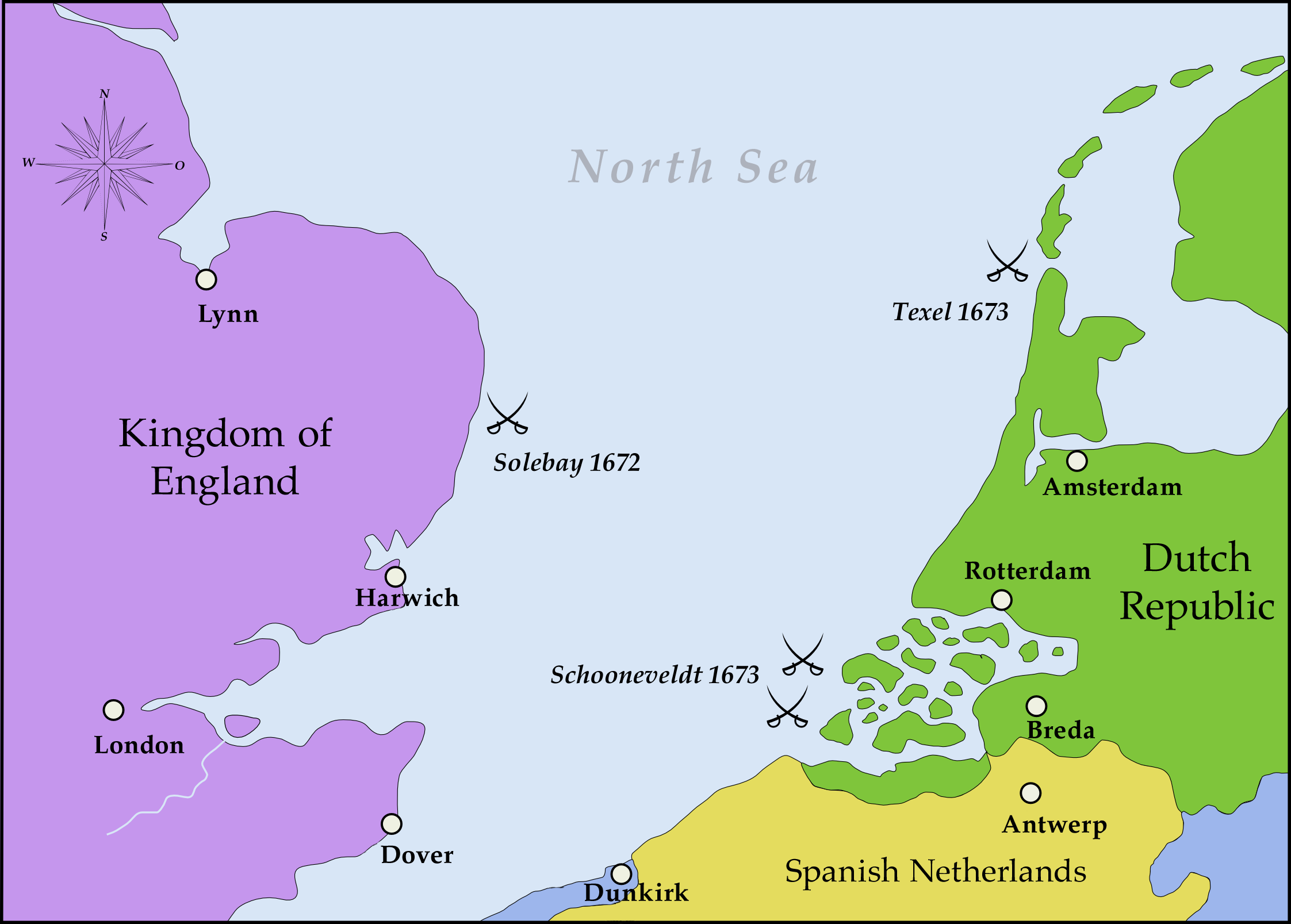 Map, showing the main battle sights of the Third Anglo Dutch War (1672-1674)